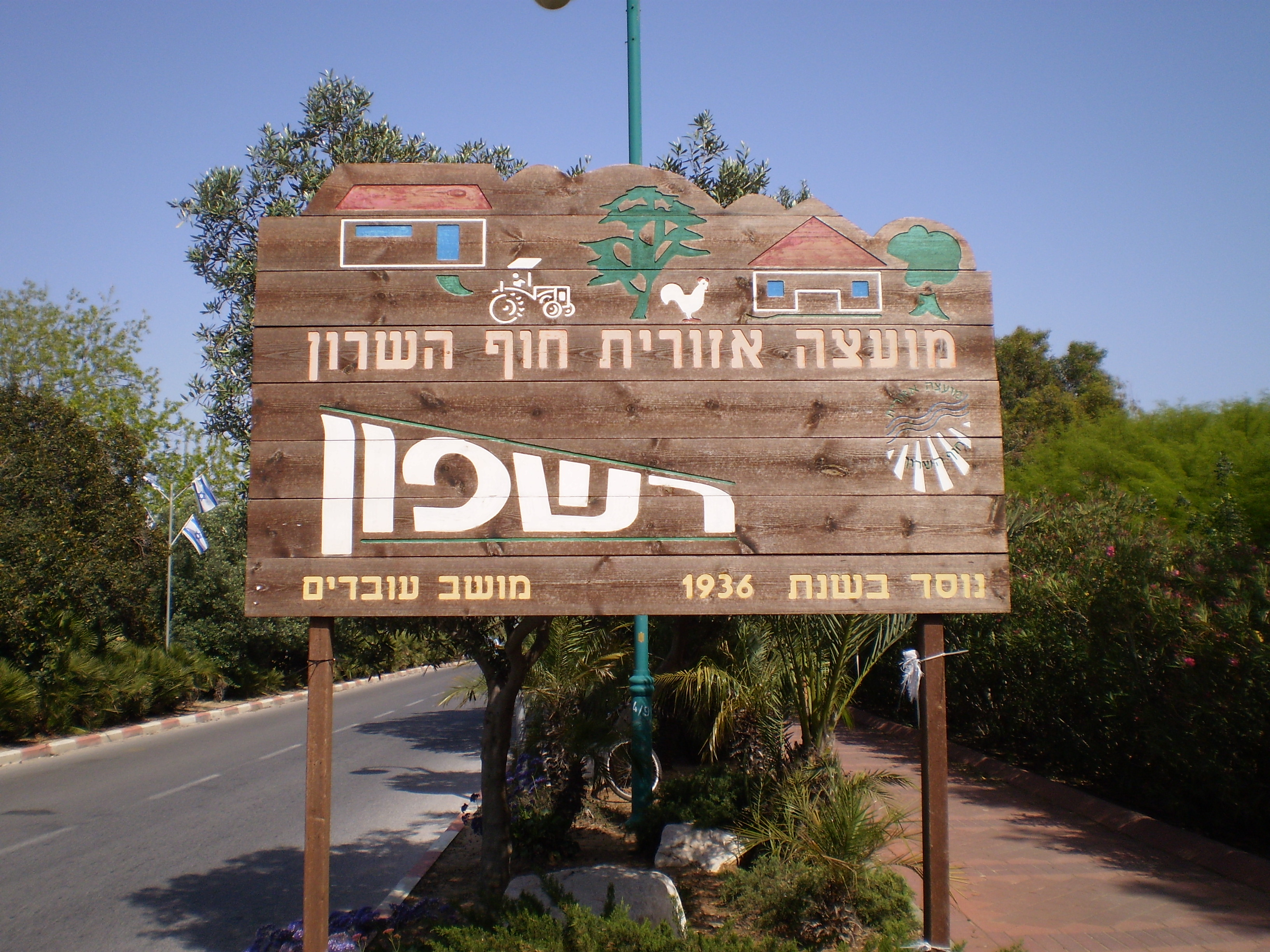 Enterance to Rishpon, Israel